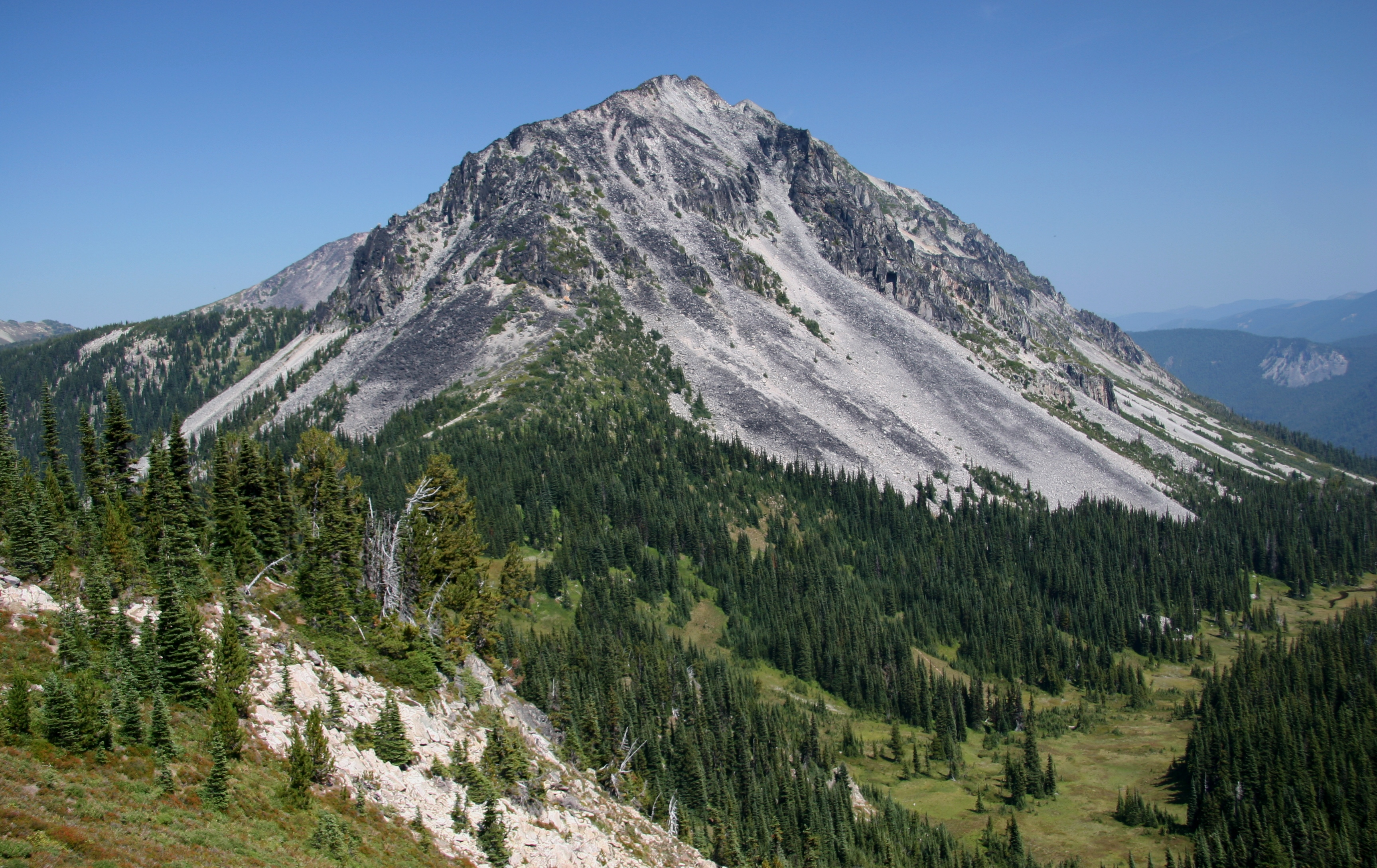 Old Desolate from the 6,342 ft. peak just before Curtis Ridge